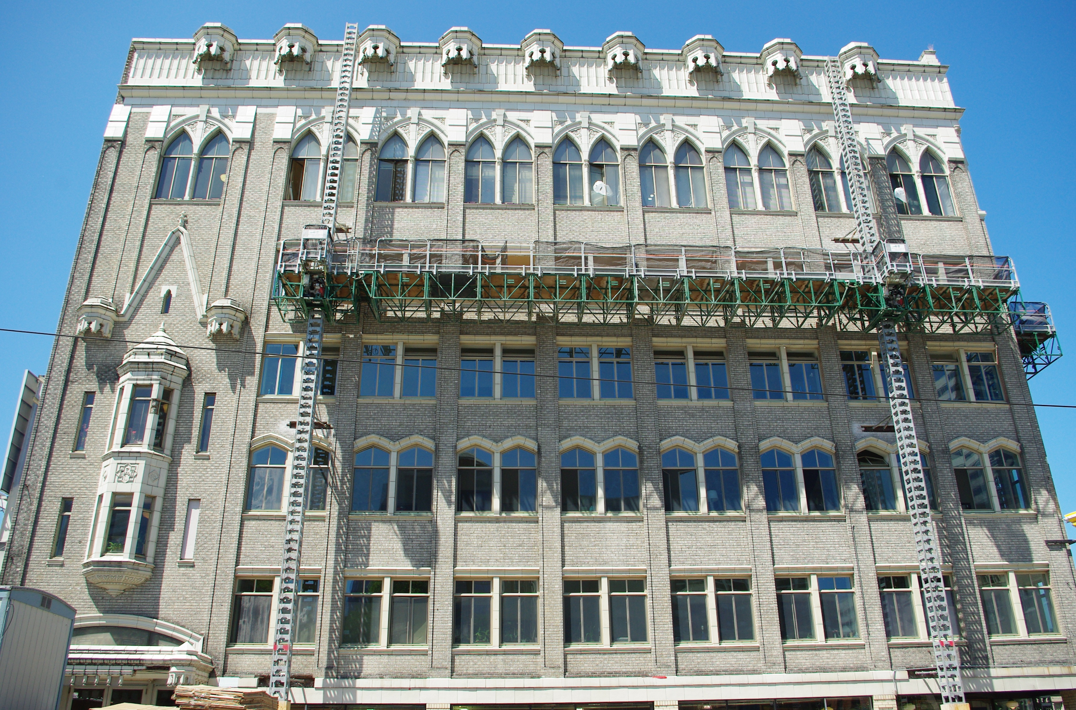 Odd Fellows Building in Downtown Portland, Oregon. East face of the building undergoing restoration.